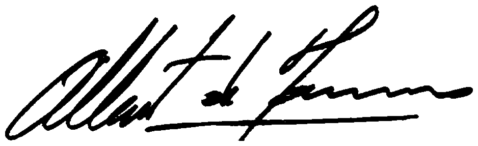 Signature of Albert II, Prince of Monaco.